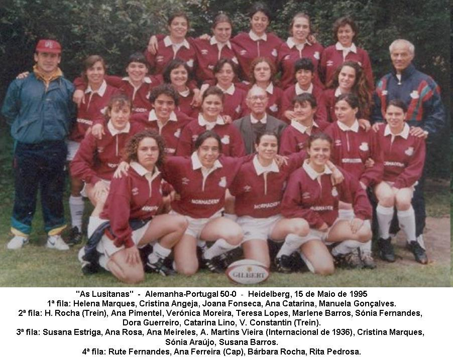 The team photograph, with names, of the first ever Portuguese women's rugby team, before their game against Germany in Heidelberg in 1995.